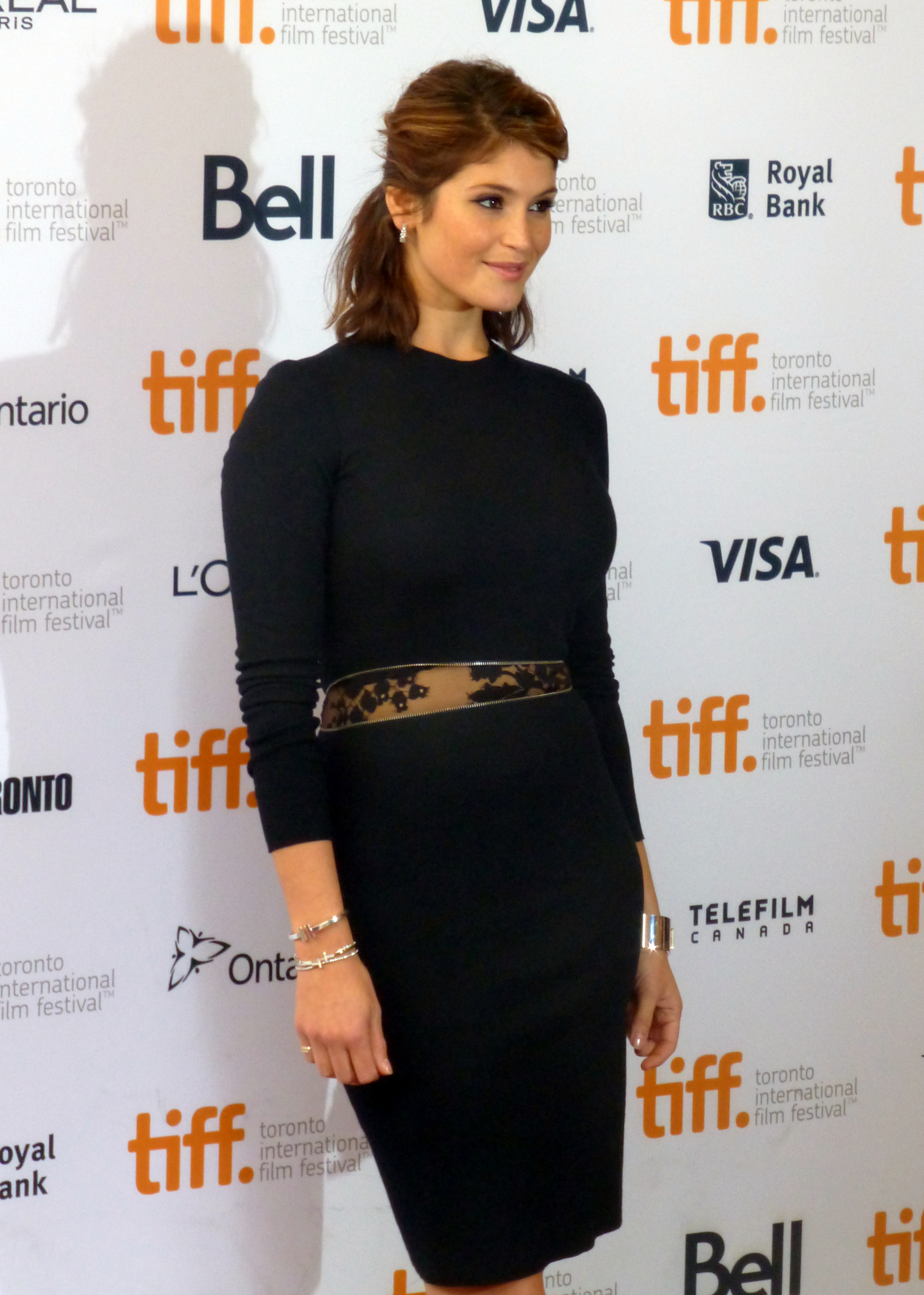 Gemma Arterton at the premiere of Gemma Bovary, 2014 Toronto Film Festival